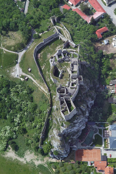 Beckov Castle, Slovakia, aerial photography